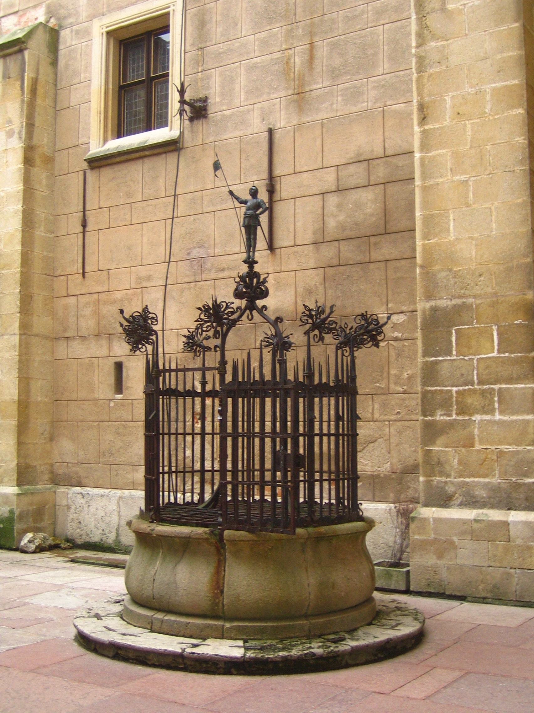 Bojnice castle, inside well